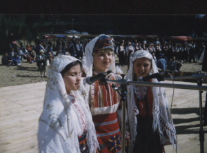 Folk performers from Chitalishte Prosveta, Pletena.